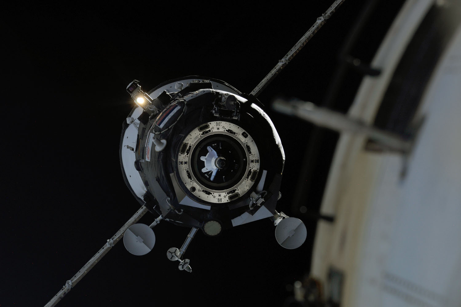 An unpiloted ISS Progress resupply vehicle approaches the International Space Station, bringing about 2 ½ tons of food, fuel, oxygen, propellant and supplies for the Expedition 24 crew members aboard the station. Progress 39 successfully docked to the aft port of the Zvezda Service Module at 7:58 a.m. (EDT) on Sept. 12, 2010. The docking was executed flawlessly by the Kurs automated rendezvous system.